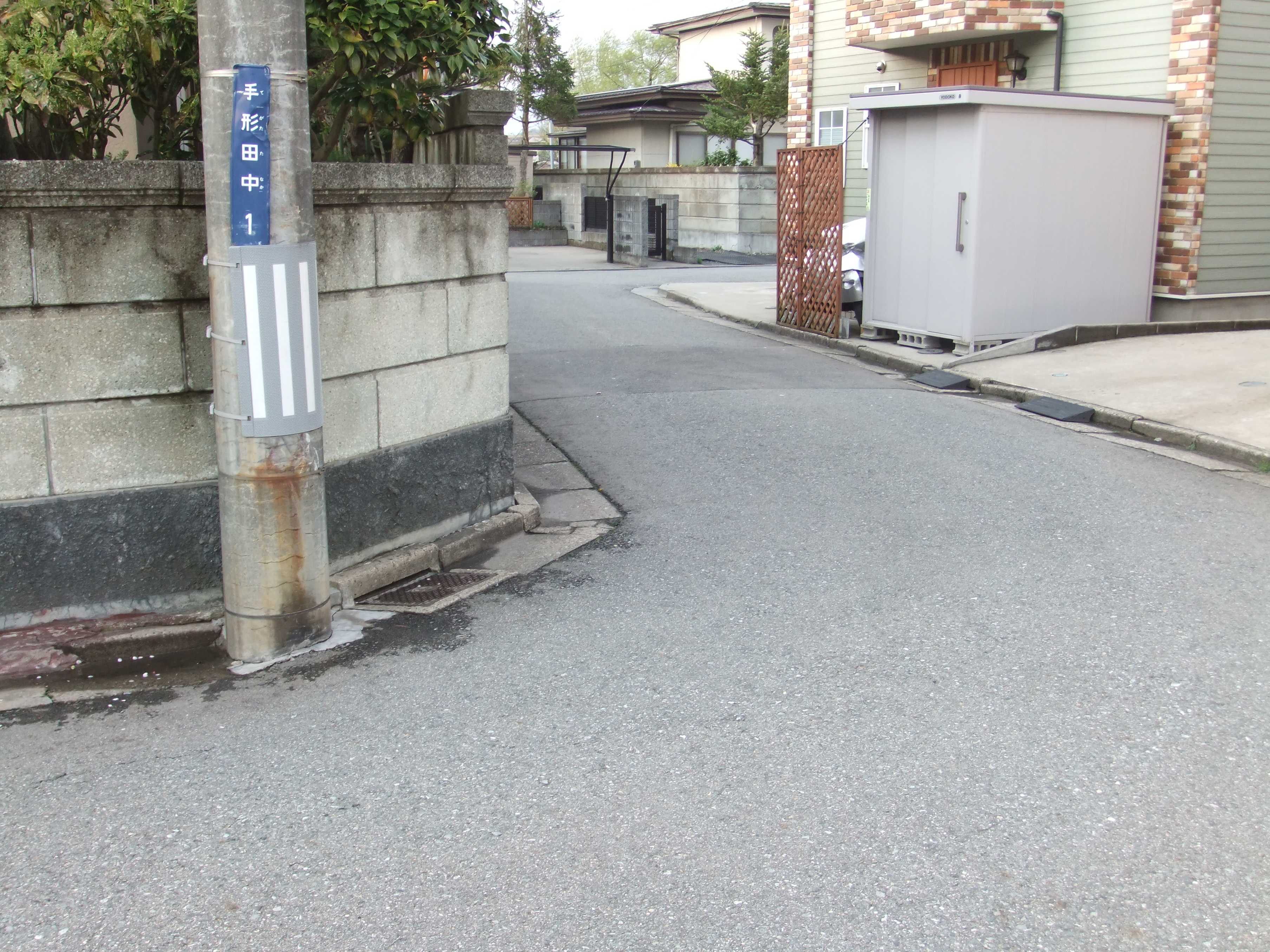 The Vestige of Kubota castle Soegawa entrance (Umadasi structure) in Akita city.